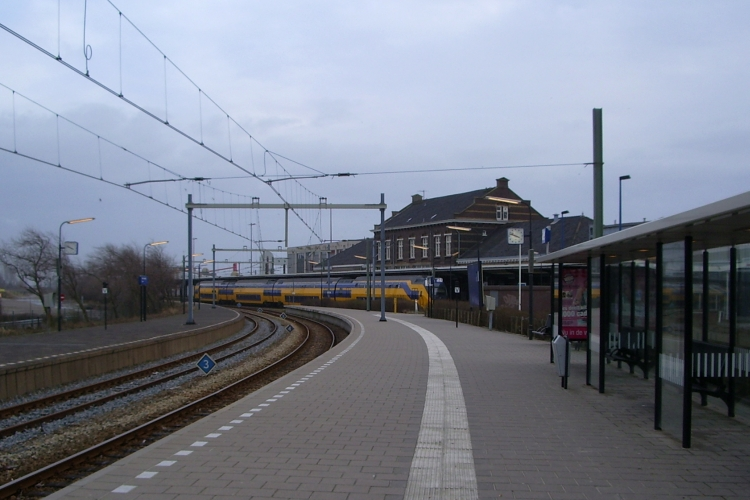 Hoek van Holland Haven railway station in 2006, on the third track the "Boat train" is ready to travel to Amsterdam